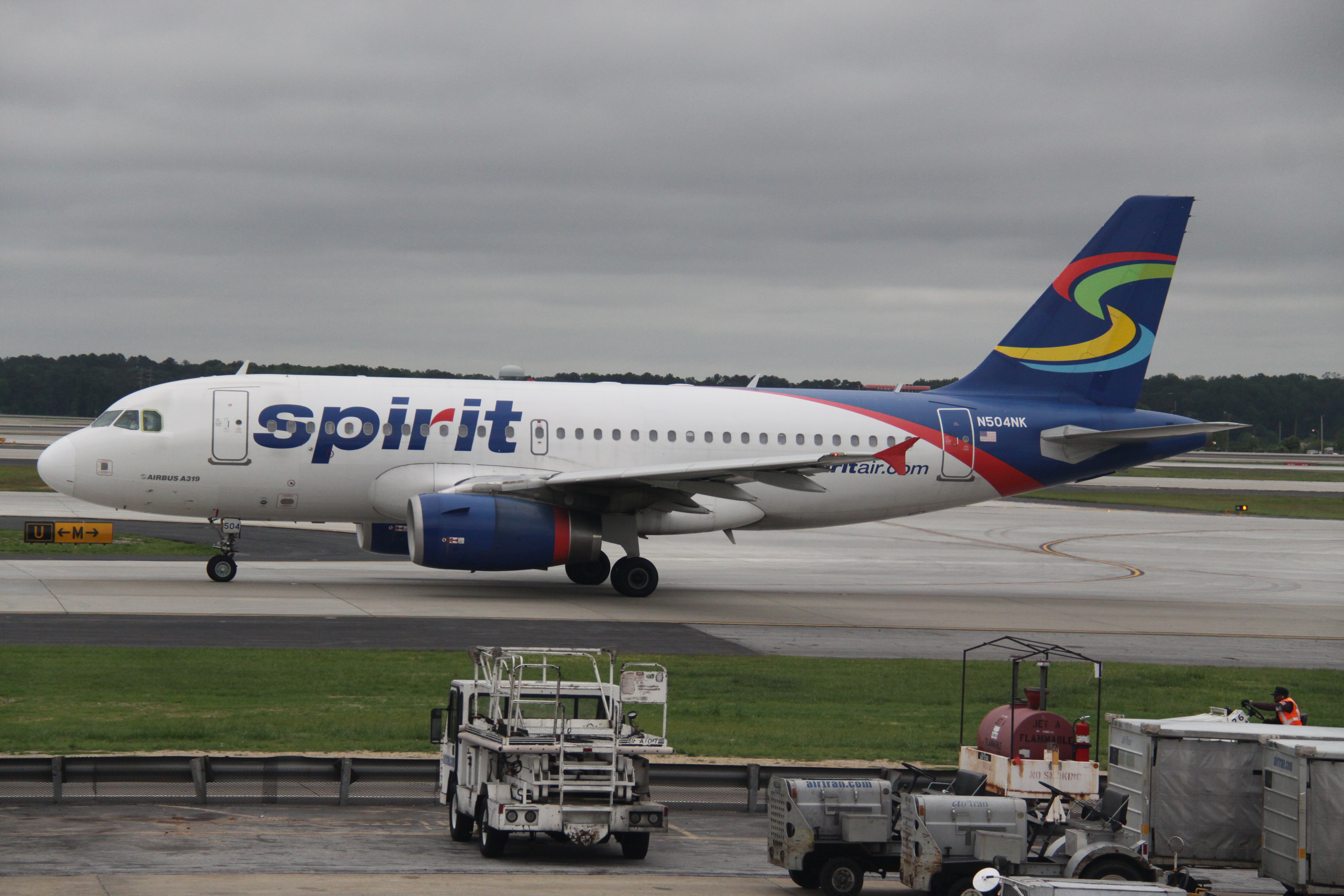 At Hartsfield-Jackson Atlanta International